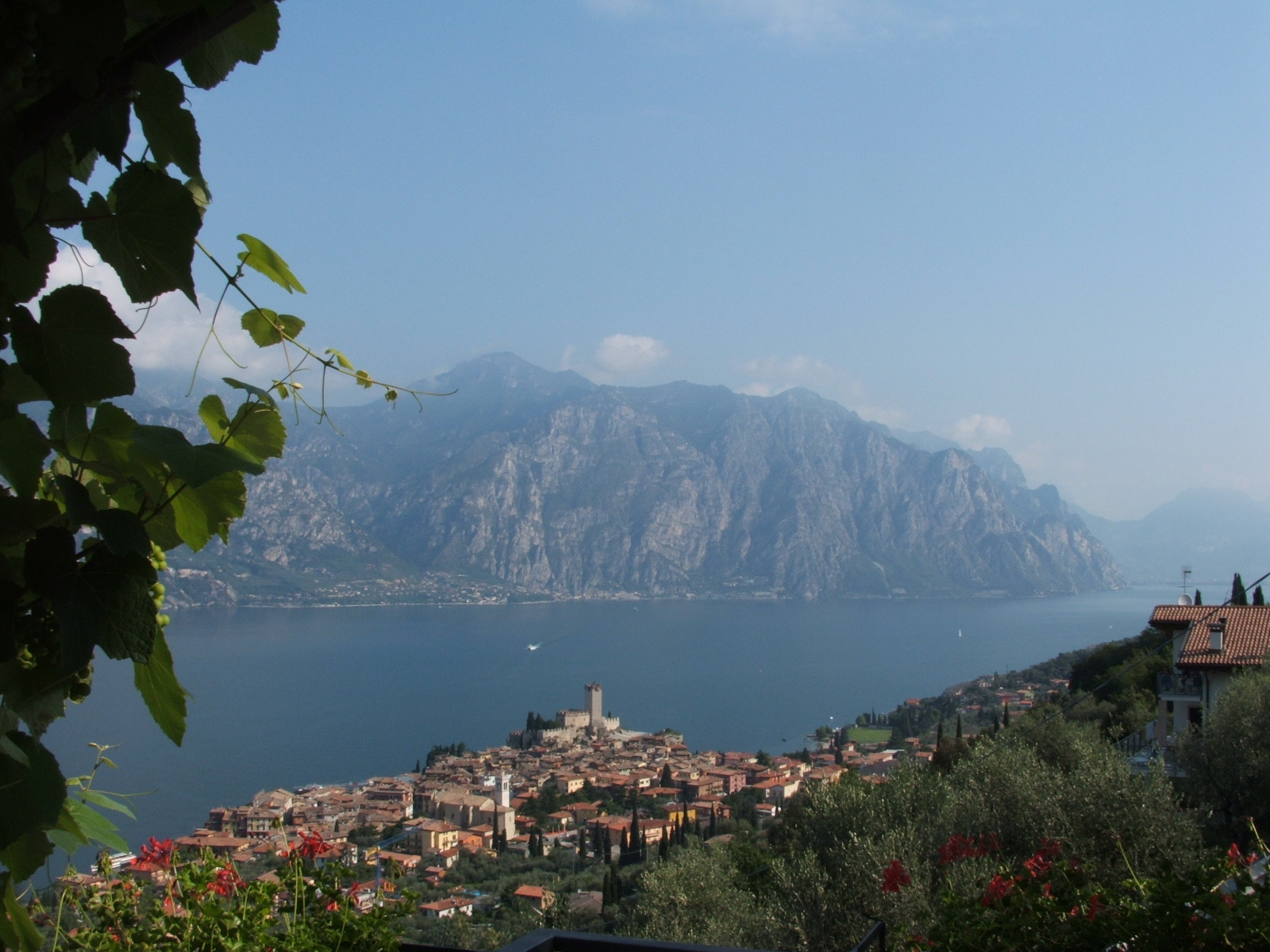 landscape of Malcesine (Italy) on Lake Garda. In the picture there's the castle near the lake, the town and on the right the mountain (Monte baldo). behind there's the lake and Pealps of Lombardia and Trentino